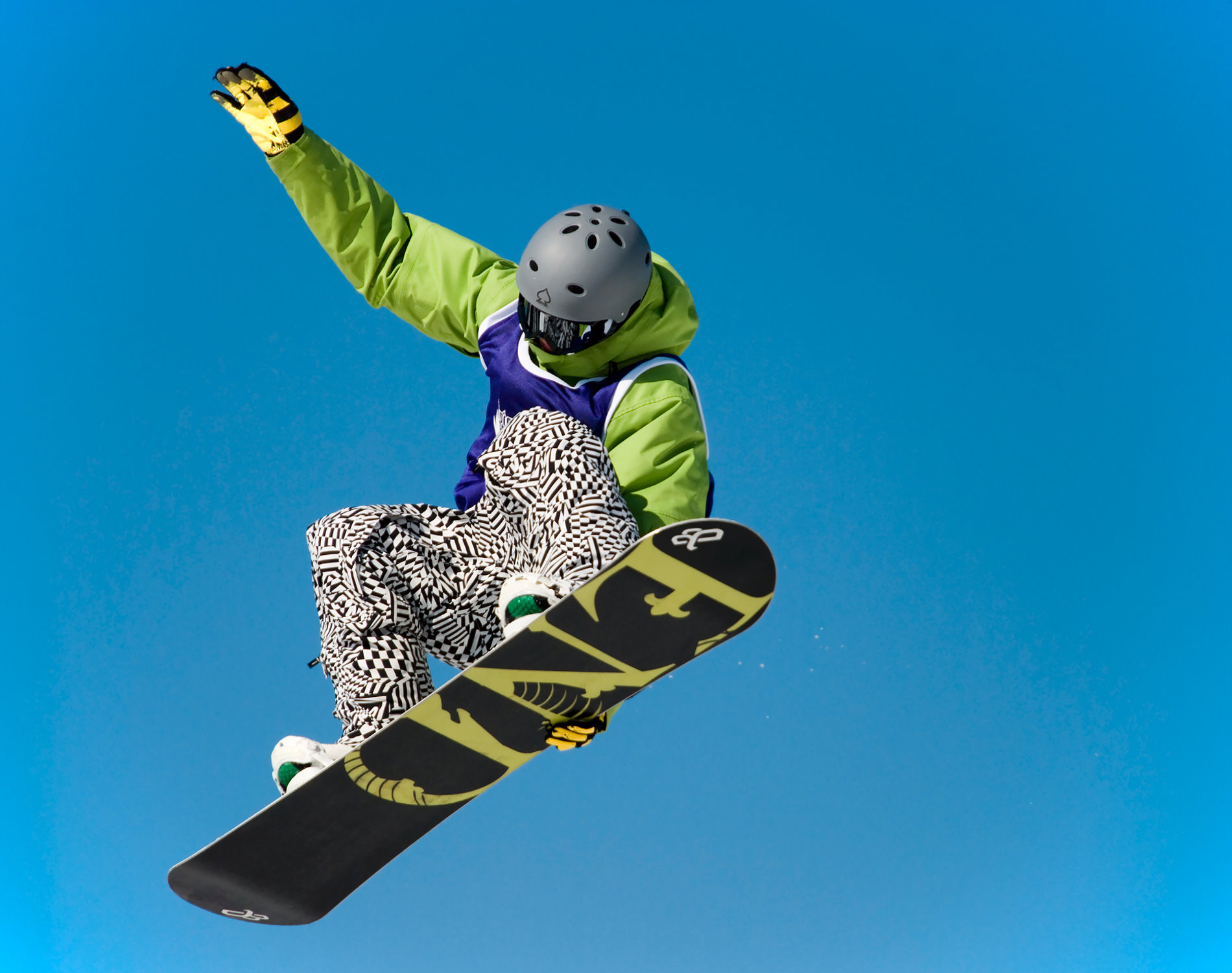 Snowboard figure at the 2008 Shakedown